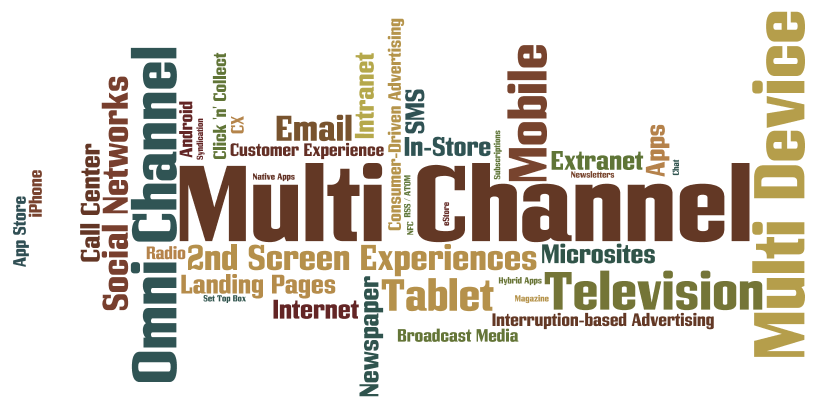 What is Multi Channel? Omnichannel marketing